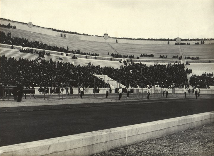 German team on horizontal bars during 1896 Summer Olympics